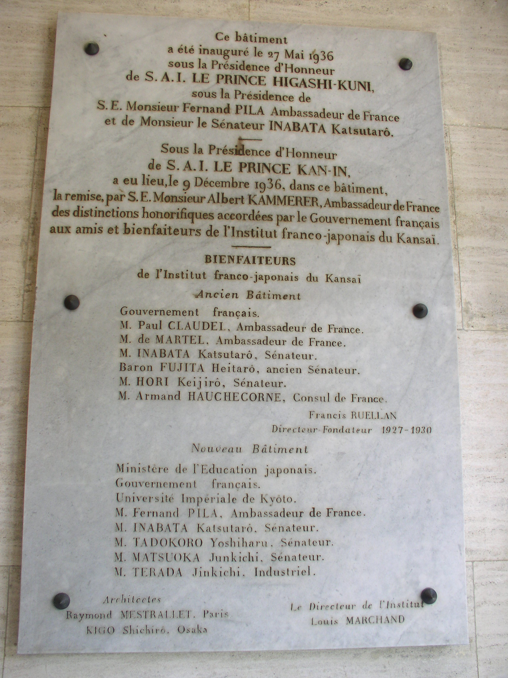 Plaque commemorating the inauguration of the Franco-Japanese Institute in Kyoto in 1936.